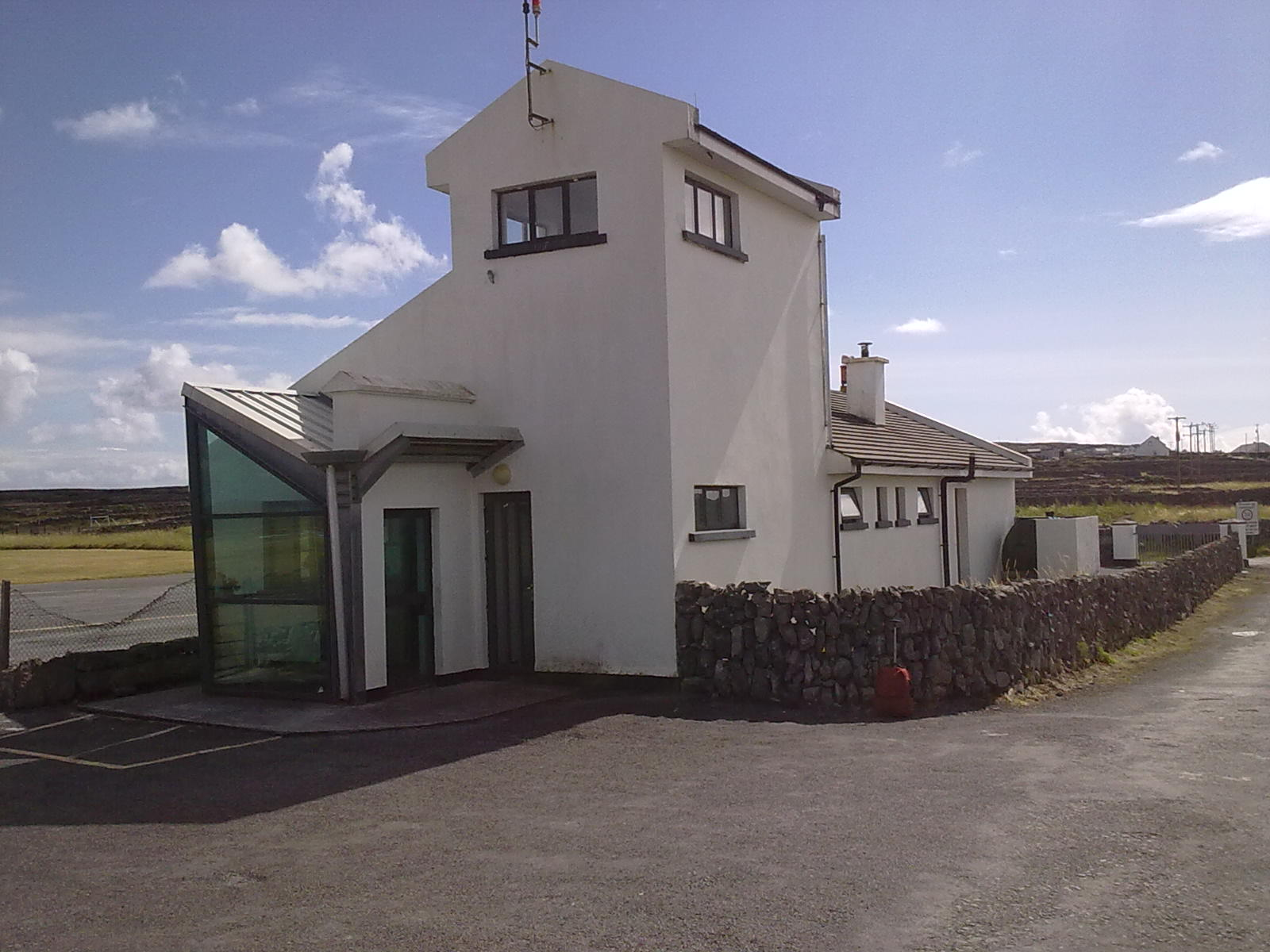 Airstrip building, Inis Meáin, Aran Islands.